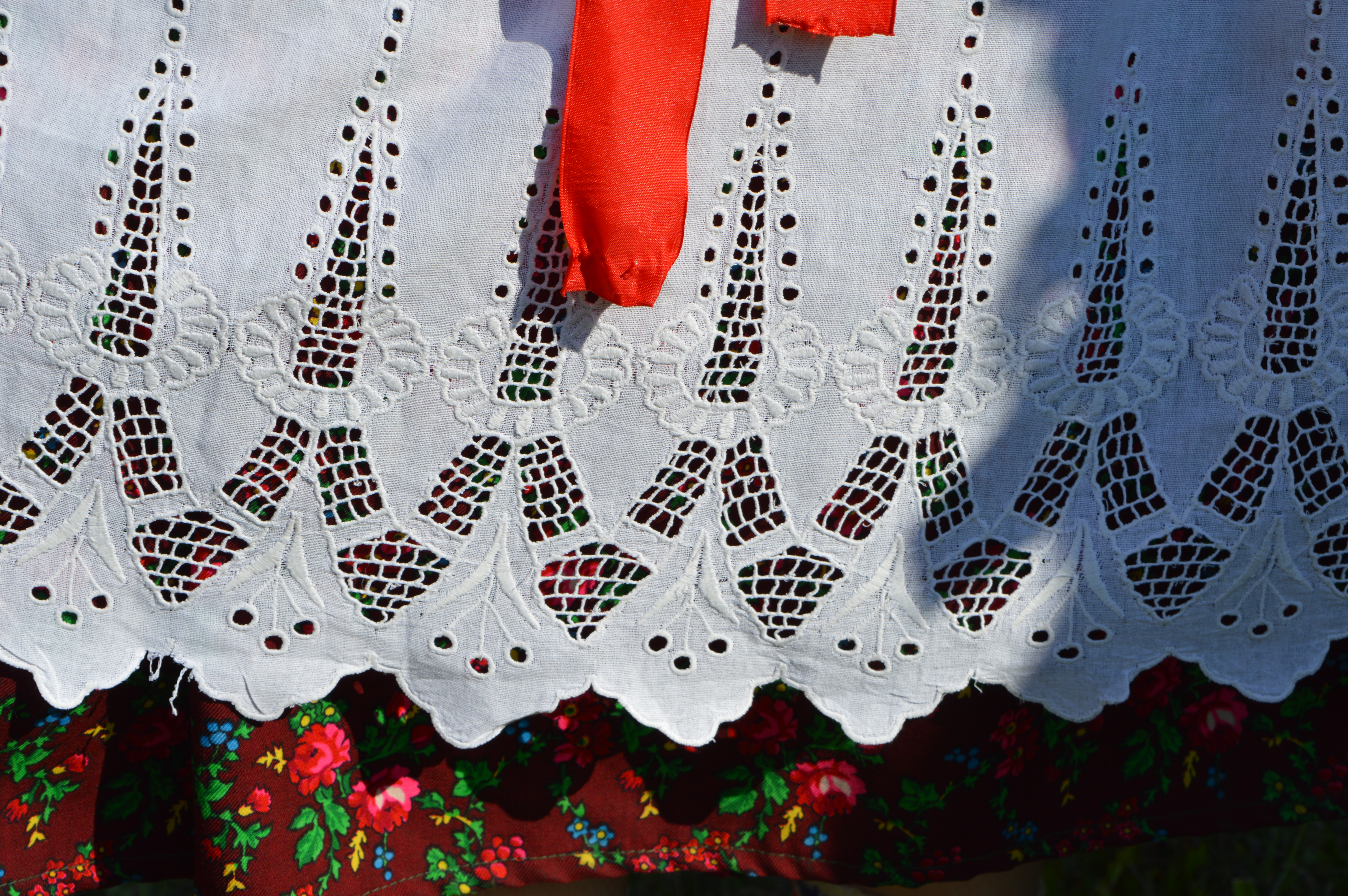 Members of the "Grojcowianie" folk music group presenting traditional Beskid Żywiecki clothes